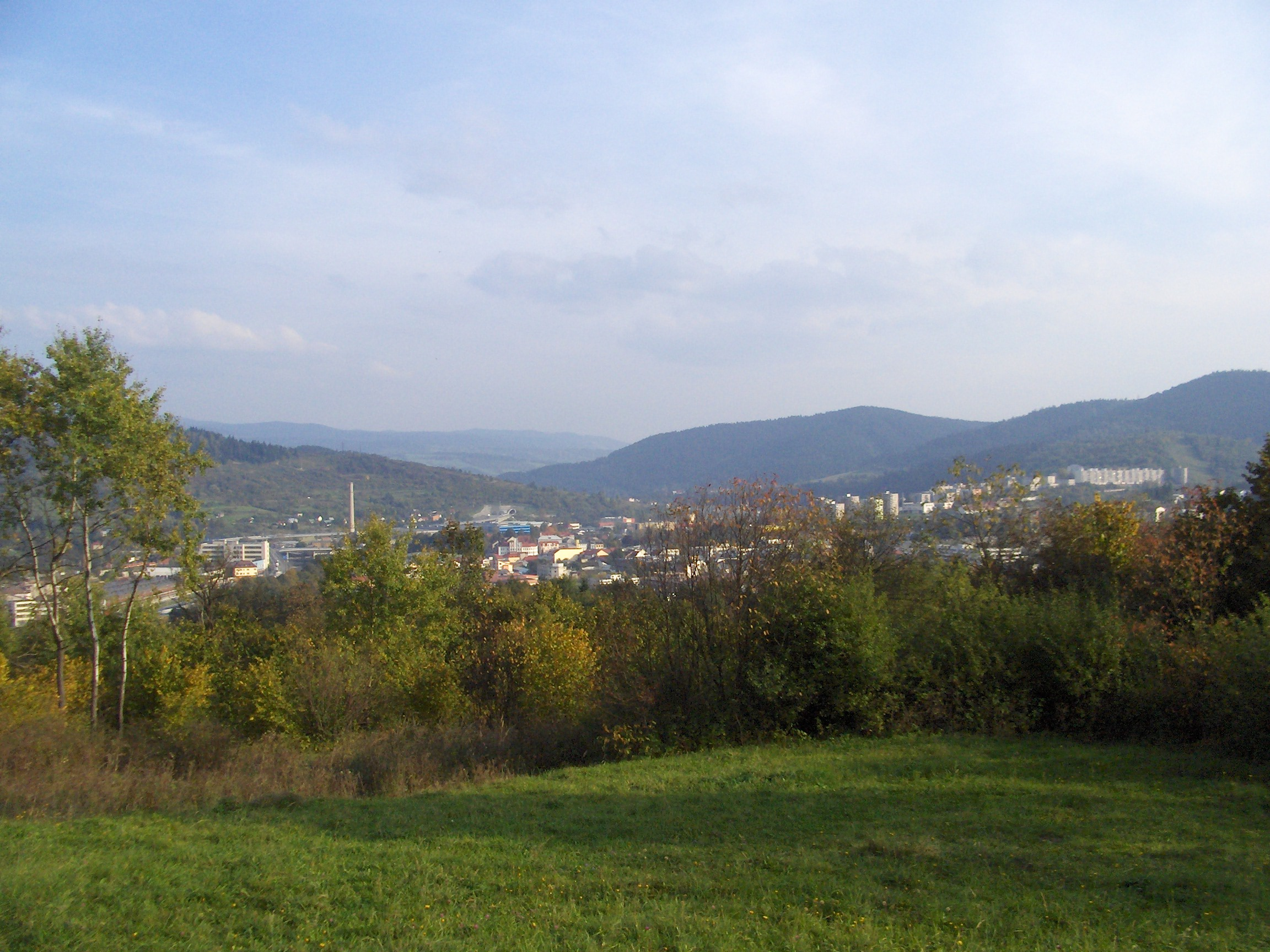 Čadca (Tschadsa, Csaca; Slovakia)